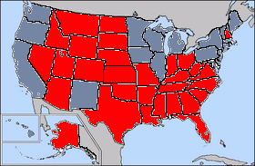 USA presidential elections 2000 results final